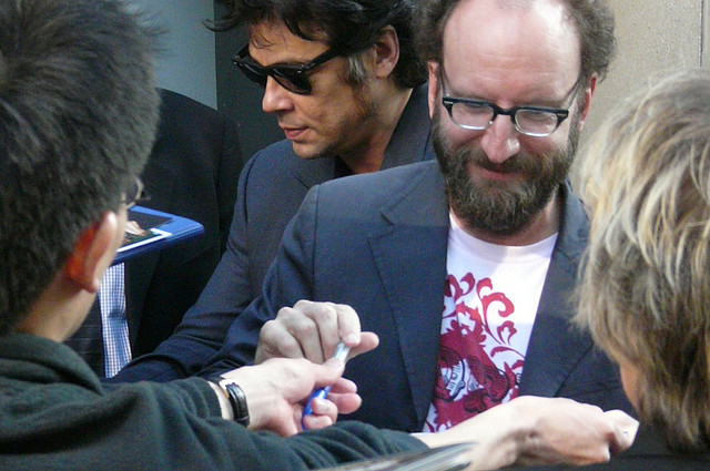 Director Steven Soderbergh and actor Benicio del Toro at the premier of Che in September 2008.